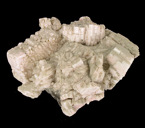 Orthoclase Locality: Baveno, Verbano-Cusio-Ossola Province, Piedmont, Italy (Locality at ) Size: 6.2 x 4.7 x 2.2 cm. A classic group of pink/white Orthoclase crystals from the famous locality at Baveno. This area lends its name to "Baveno" twinned Feldspar crystals, and is one of the most well known Feldspar localities in the world. The largest Orthoclase crystal measures 2.4 cm long.